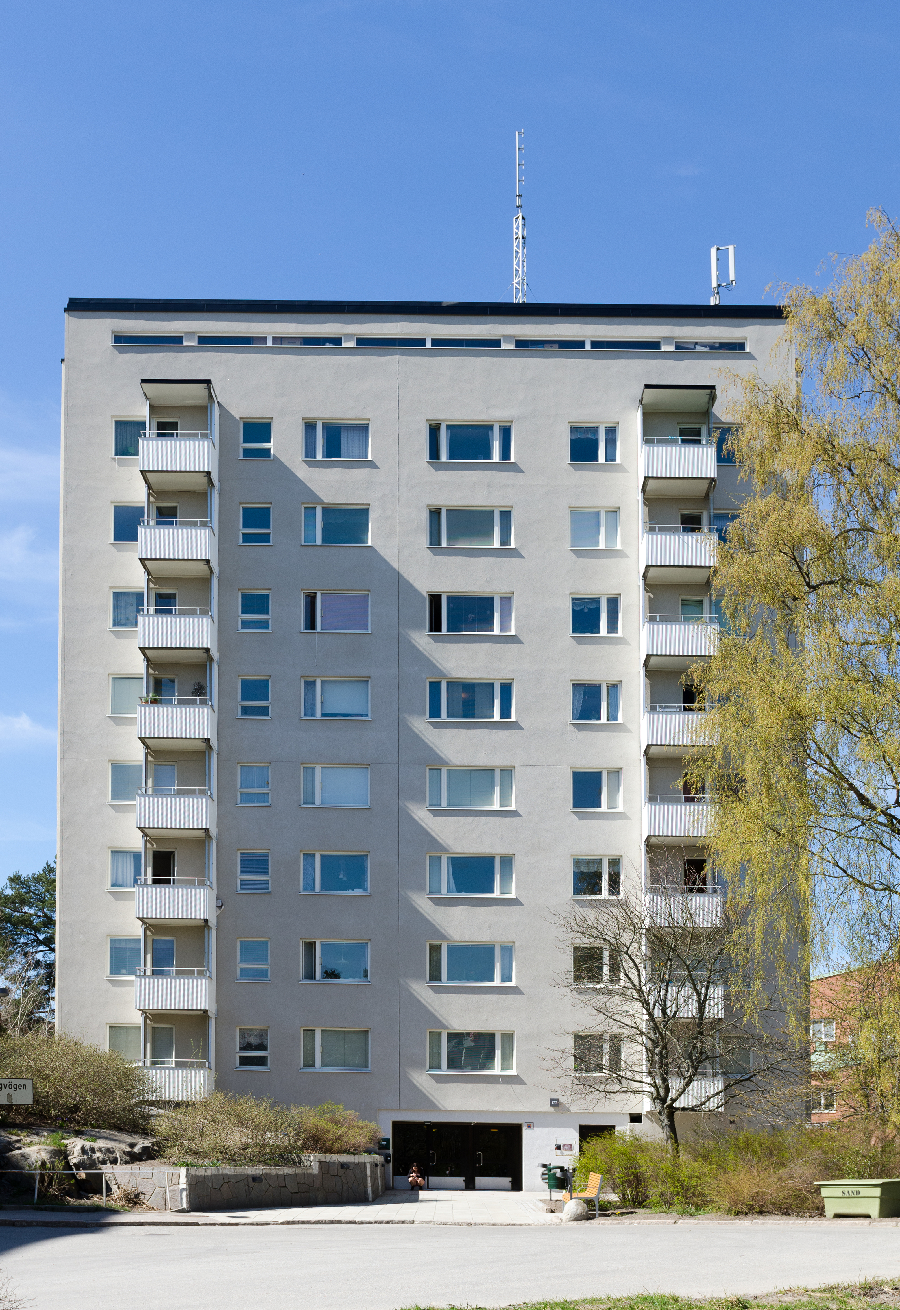 Lingvägen Hökarängen